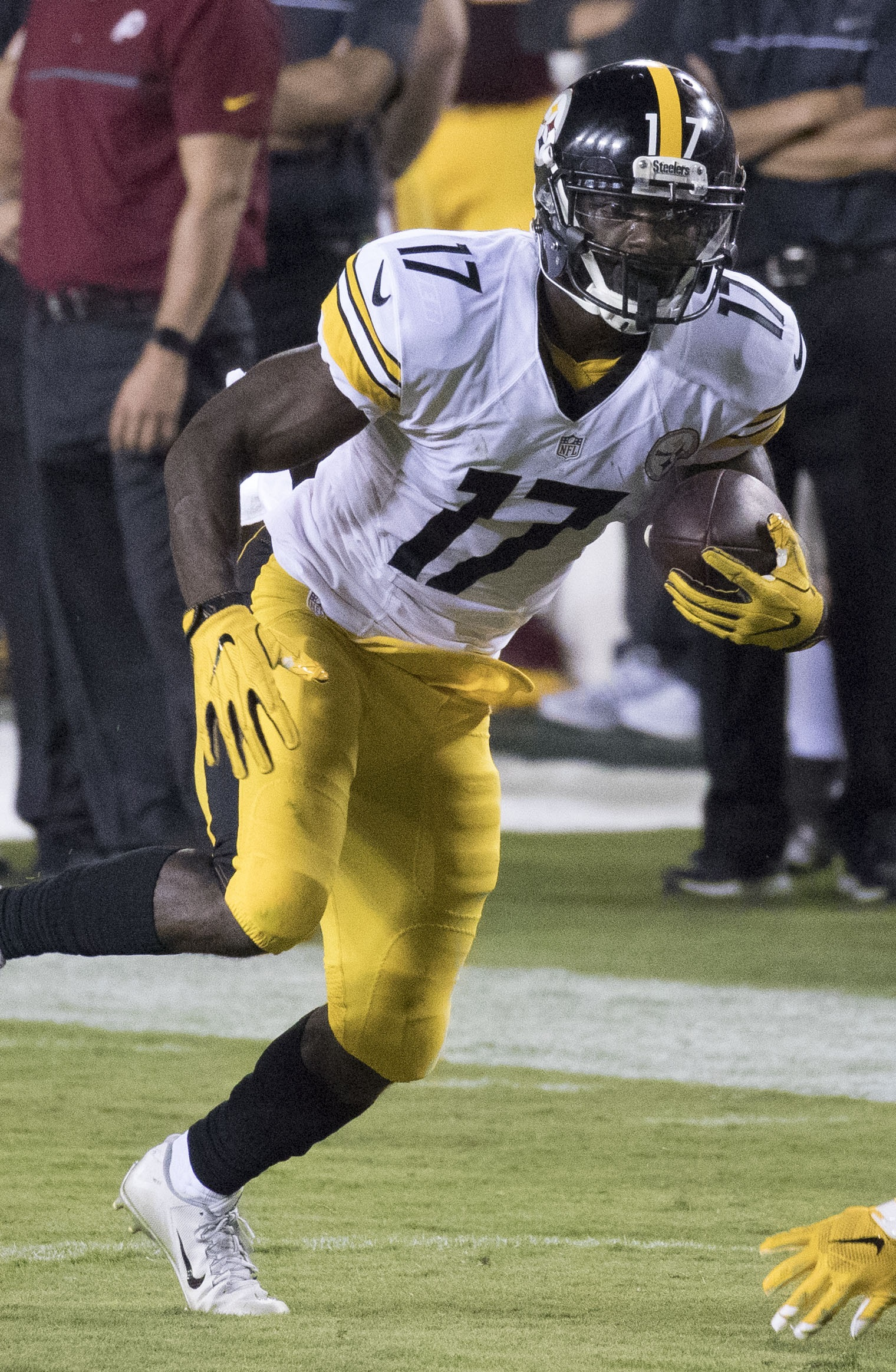 Steelers at Redskins 9/12/16